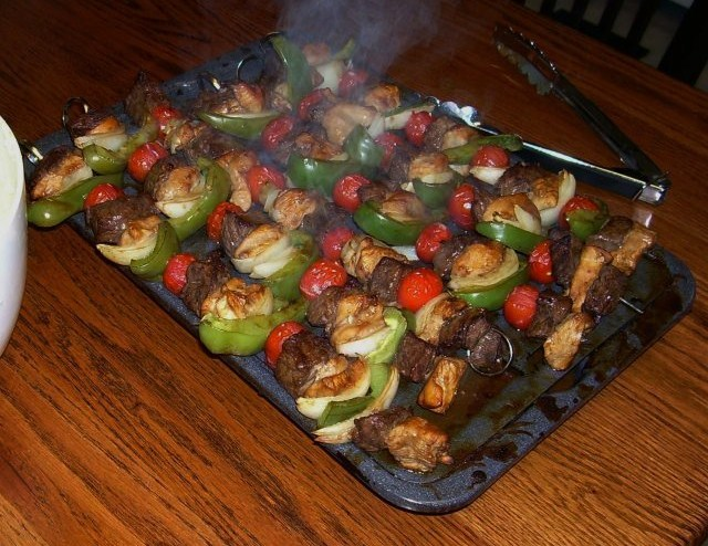 Those kabobs sure do look good, don't they? Mhmm!!! Well today we will be showing you how to make them! So let's get started! For every 6 kabob skewers needed to make: 3 skinless, boneless chicken breasts cut into cubes 2 lbs of thick cut steak, lean cut into cubes 2 large onions cut into wedges 2 large green peppers cut into thick slices 1 pint of cherry or grape tomatoes 1 lb of whole mushrooms (optional) 1 bottle of Honey Teriyaki Marinade In a large gallon size plastic bag place chicken and steak and pour marinade in. Allow to sit for 6 to 7 hours or overnight. Take your skewers and begin to add meat and vegetables, starting with your chicken, steak, onion, green pepper, mushroom if used, tomato and then repeat til you get to 1/2 from end of skewer trying to end with a piece of meat. This was a delicious grilling recipe brought into us by our good friend Dawn, thanks Dawn! I am Stephen Rummey at